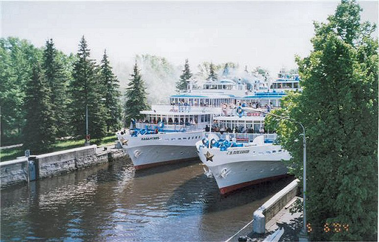 Locks of the Uglich Reservoir, Uglich, Russia.